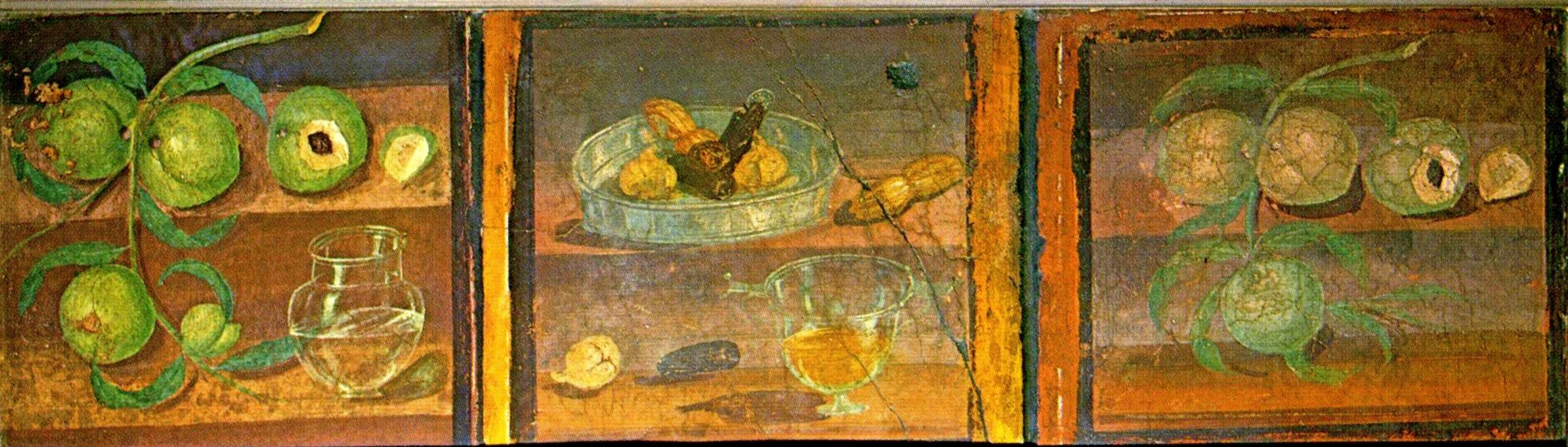 Frescos of three vignettes of fruit from the Casa dei Cervi (House of the Deer), Herculaneum.